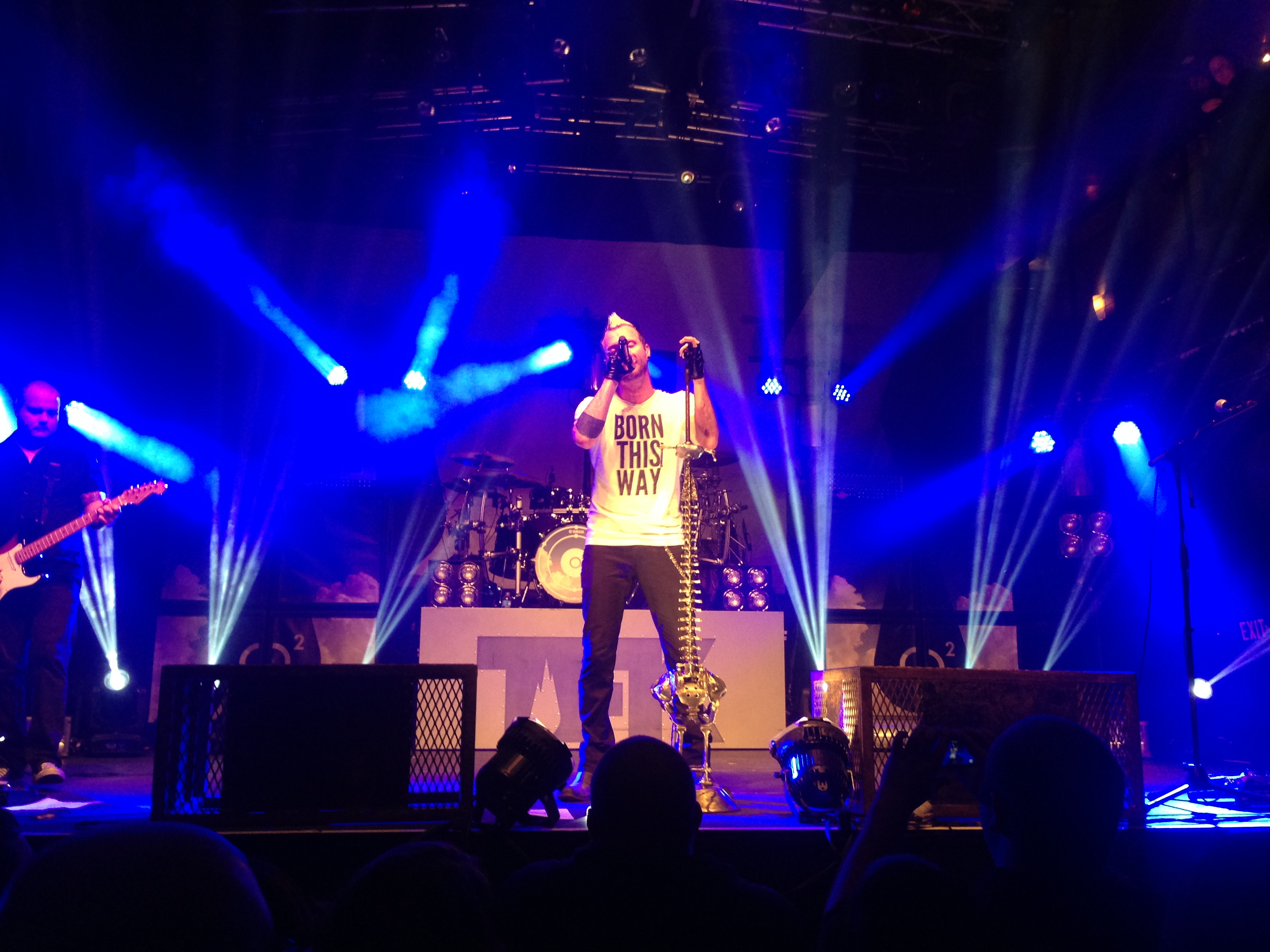 Thousand Foot Krutch playing in Minneapolis at Mill City Nights, 2014-10-08